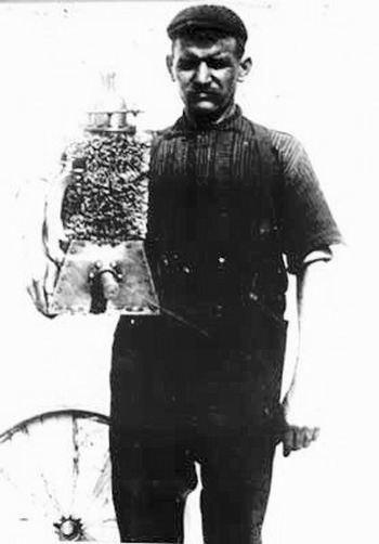 Color corrected and histogram corrected version of Image:Whitehead_with_engine.jpg which already exist in Wikimedia collection.